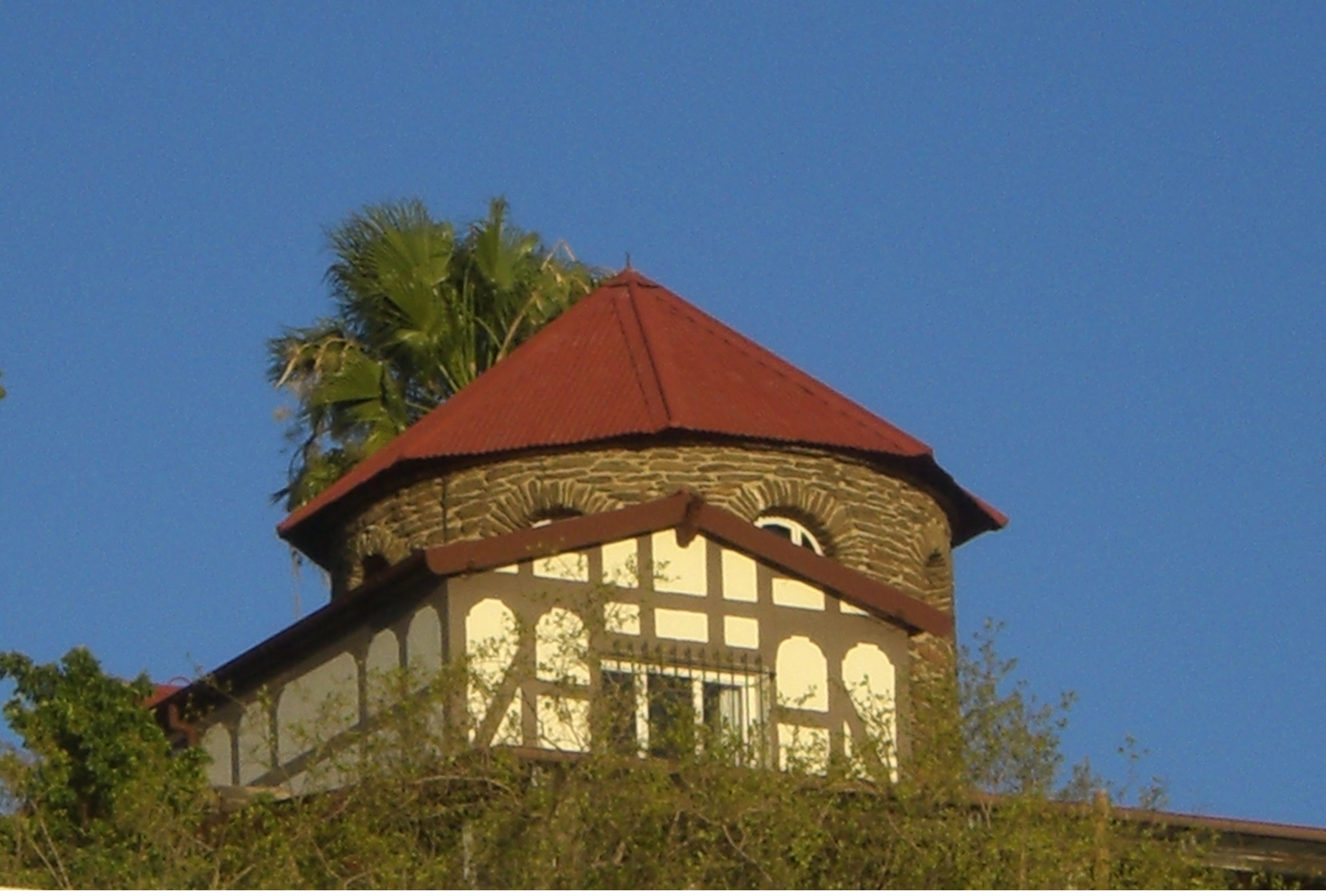 Sanderburg in Windhoek, capital of Namibia